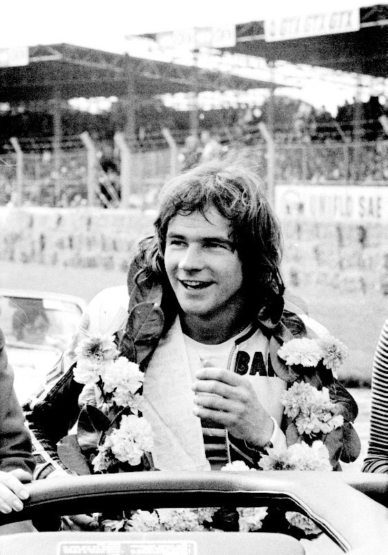 Barry Sheene - motorcycling champion.